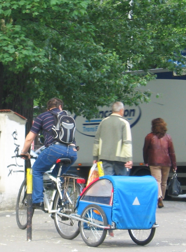 bicycle trailer for small child on the street of city Wrocław (Poland)